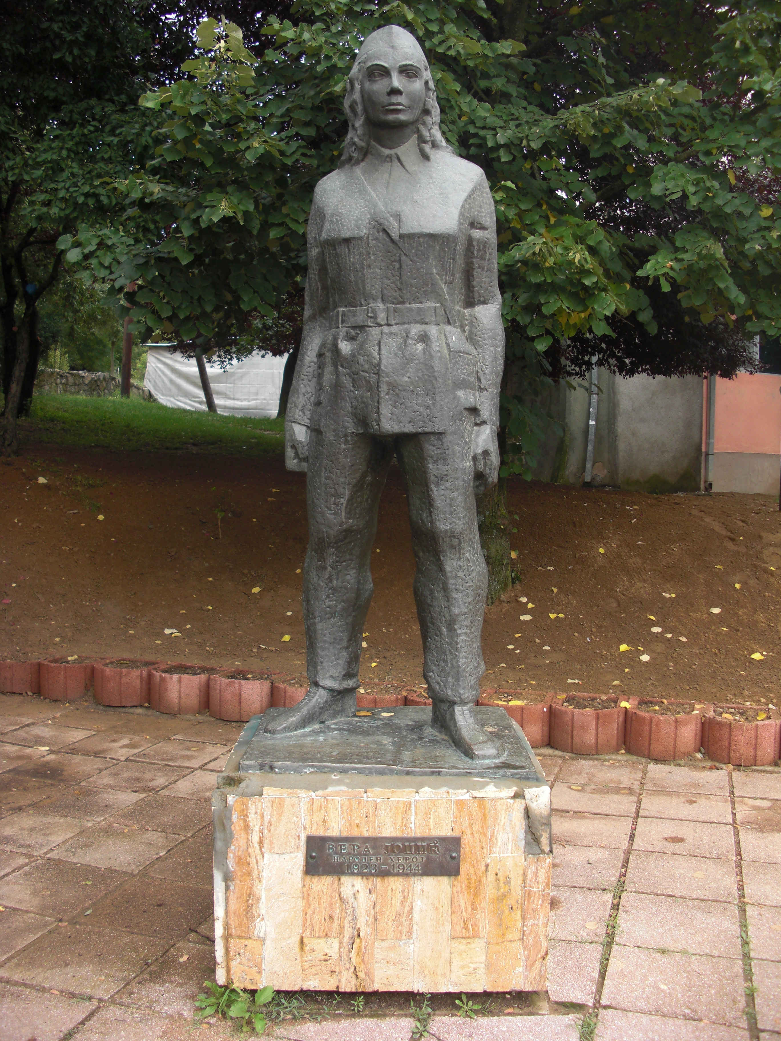 Statue of Macedonian/Yugoslav People's Hero Vera Jocic in Makedonska Kamenica, Macedonia